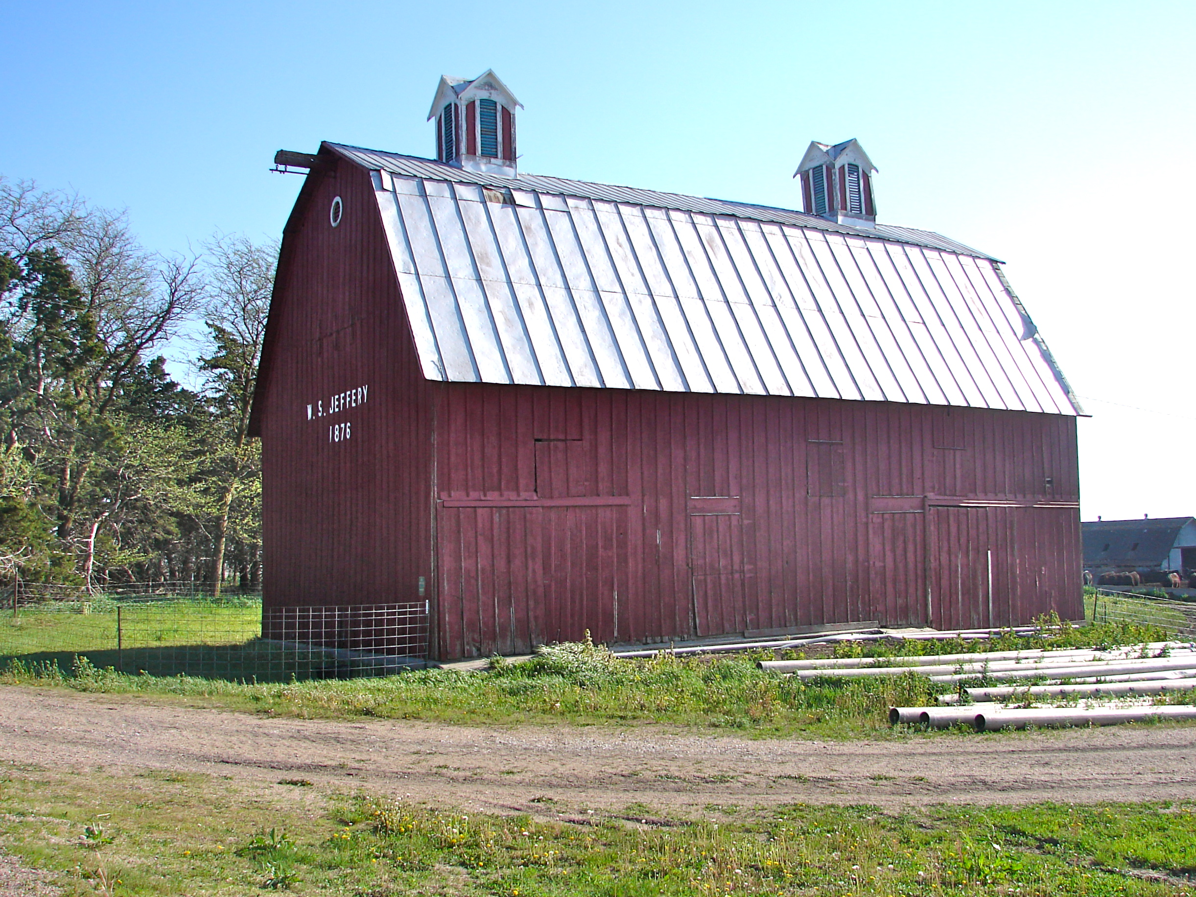 W.S. Jeffery Farmstead on the NRHP since July 26, 1982. West of Benedict, Nebraska on Route H, just south of Rt 22. House across the street from barn. Sheep living in barn.